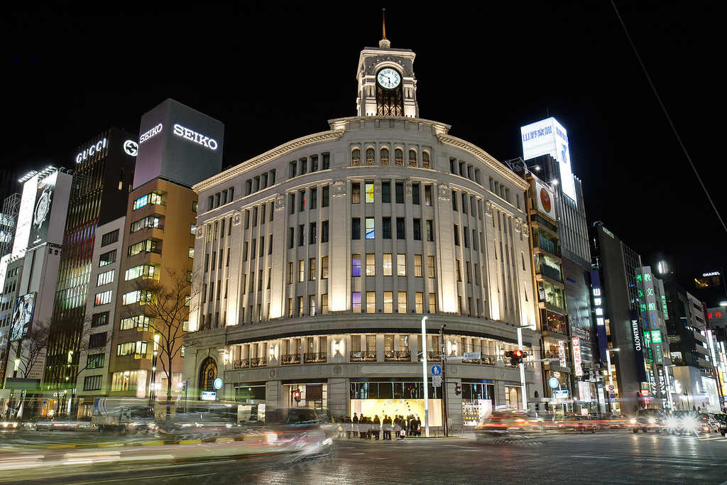 The Ginza Wako Clock, Tokyo, Japan